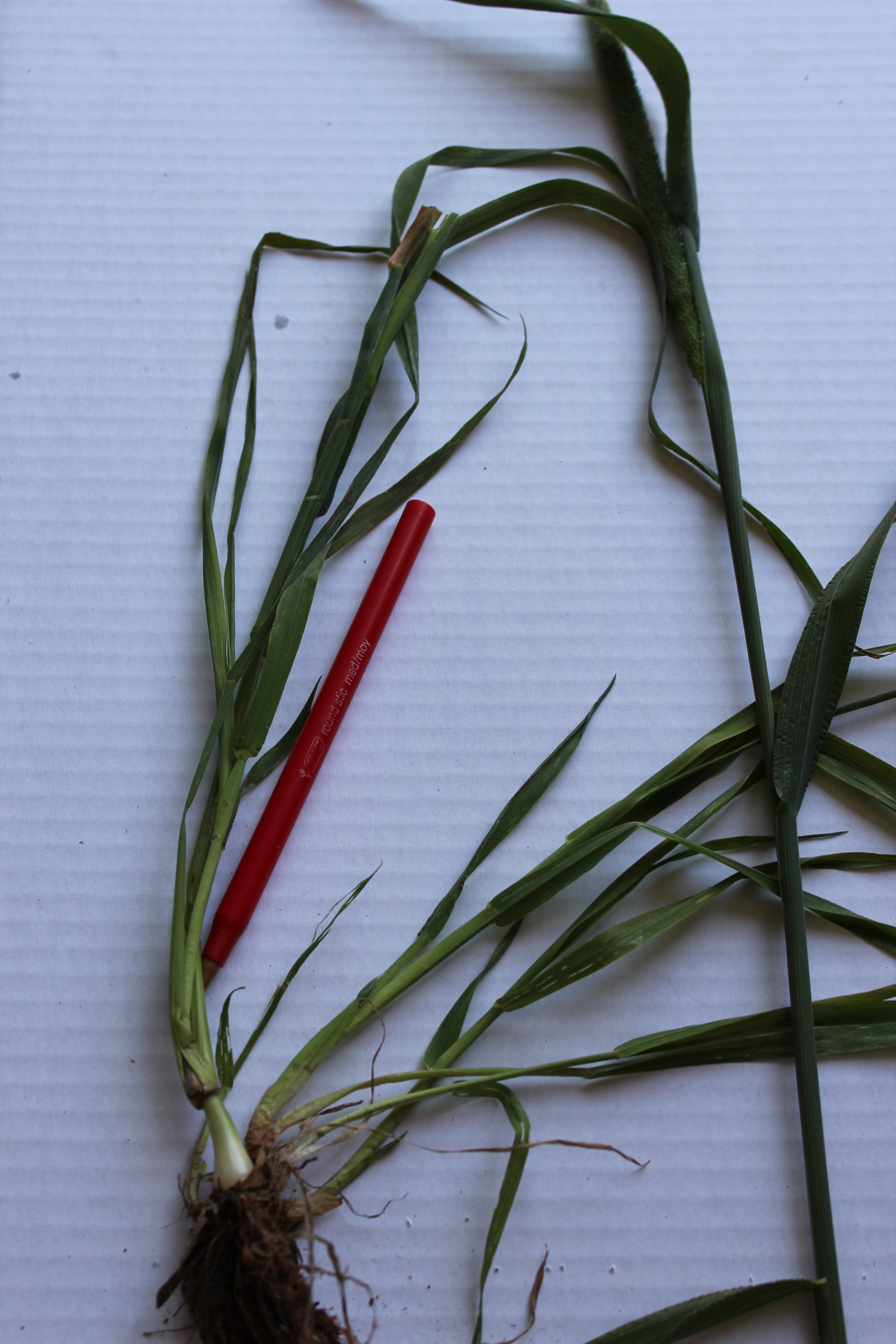 Corm of Phleum pratense